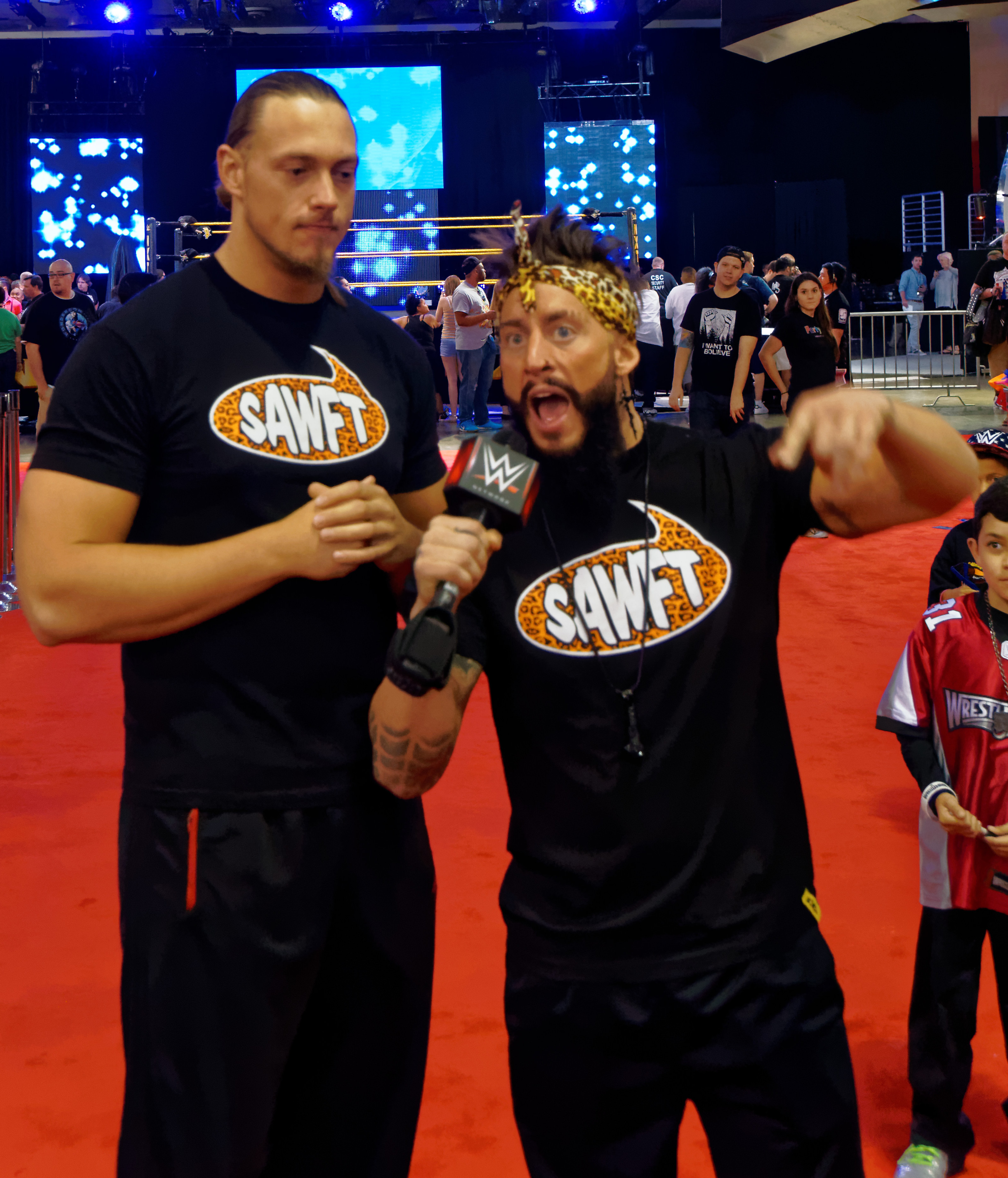 Colin Cassady and Enzo Amore at WrestleMania 31 Axxess in March 2015. Cropped from original.